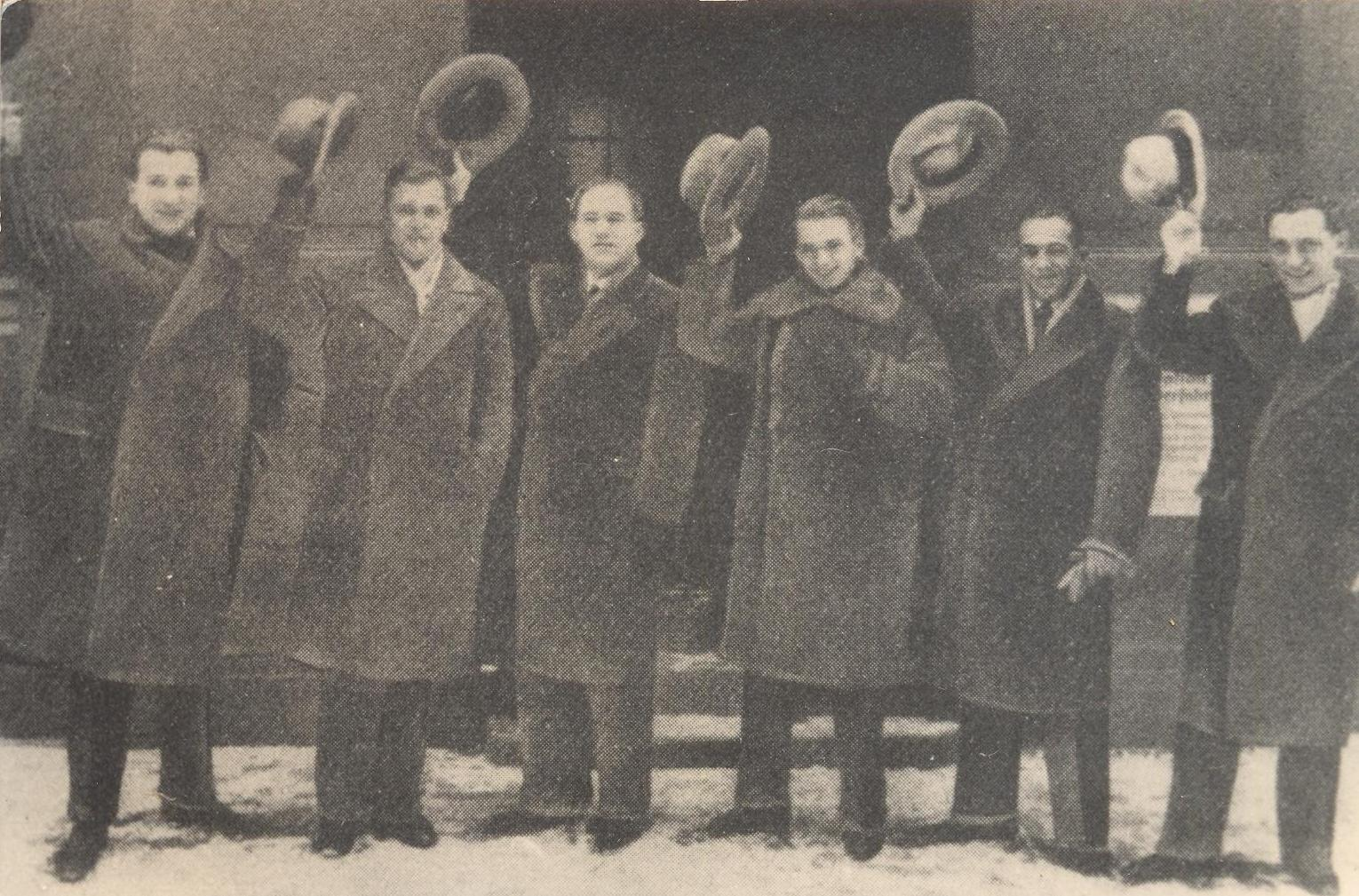 Comedian Harmonists, Berlin, 01.01.1928